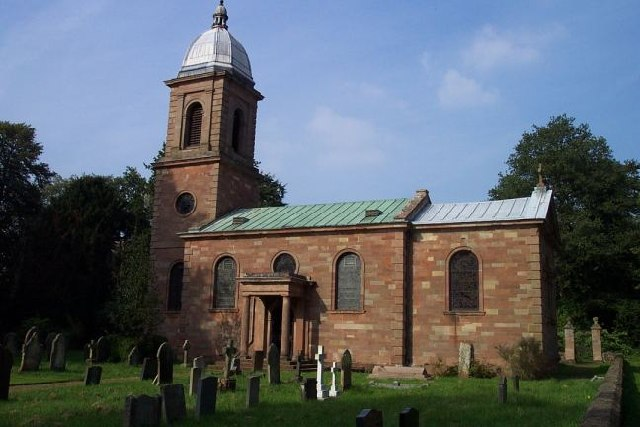 St Mary's parish church, Patshull, Staffordshire, seen from the south